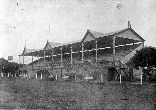 Grandstand at Club Atlético San Isidro stadium in the 1920s.